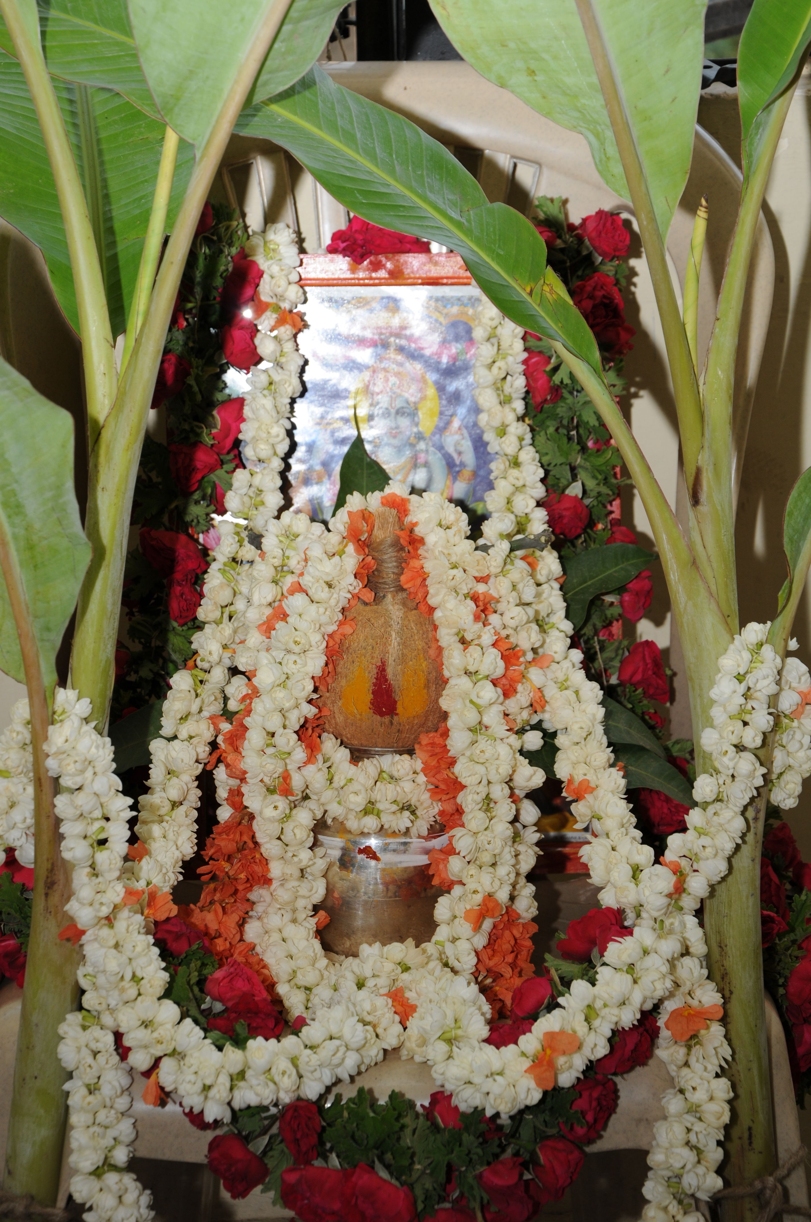 Kalasha (decorated coconut) used on various religious occasions in Karnataka